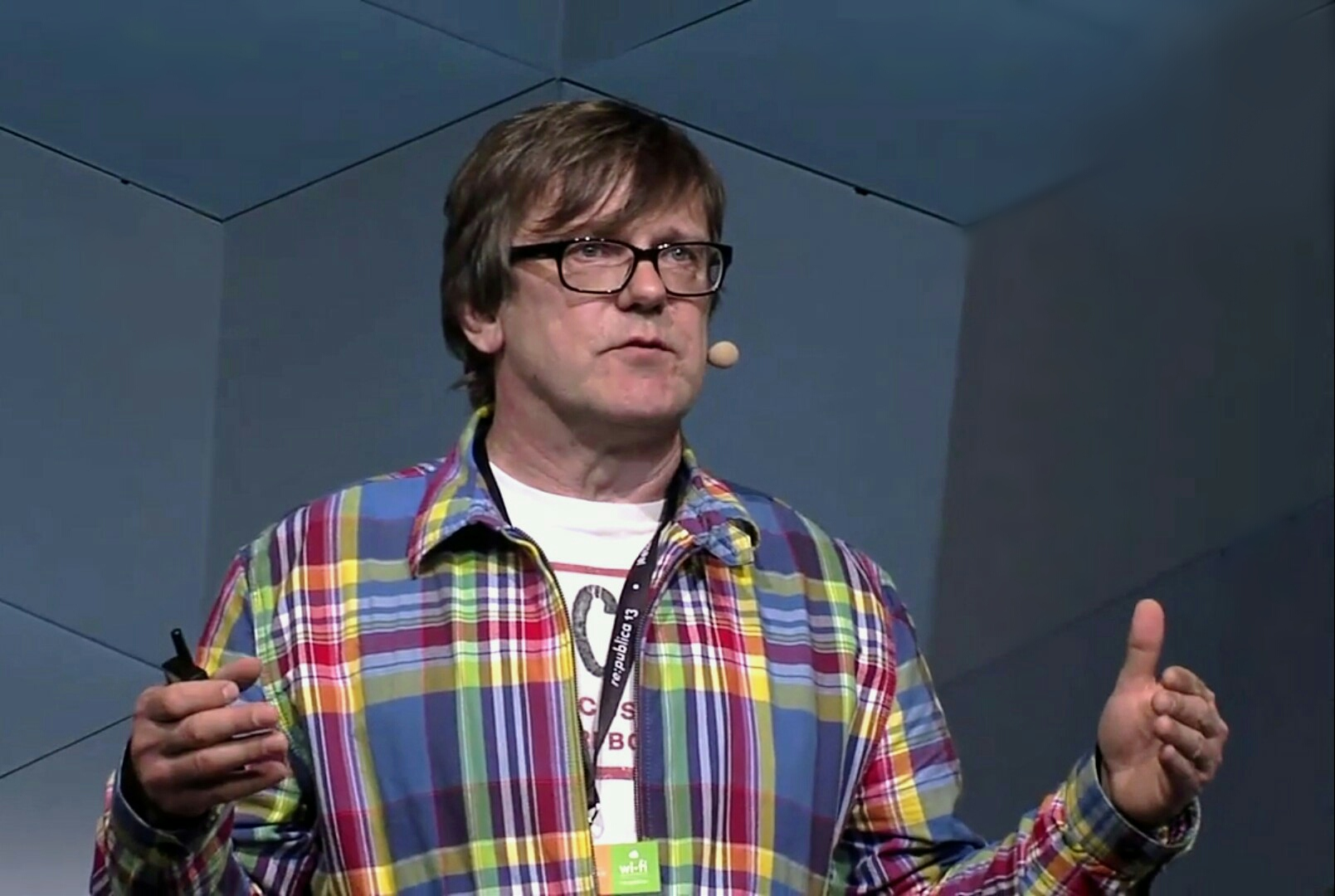 Find out more at: tba Tero Kaukomaa | | | Timo Vuorensola | | | Creative Commons Attribution-ShareAlike 3.0 Germany (CC BY-SA 3.0 DE)